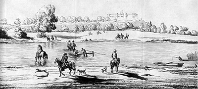 Datchet Mead and Datchet Ferry looking from the Buckinghamshire bank towards Windsor Castle